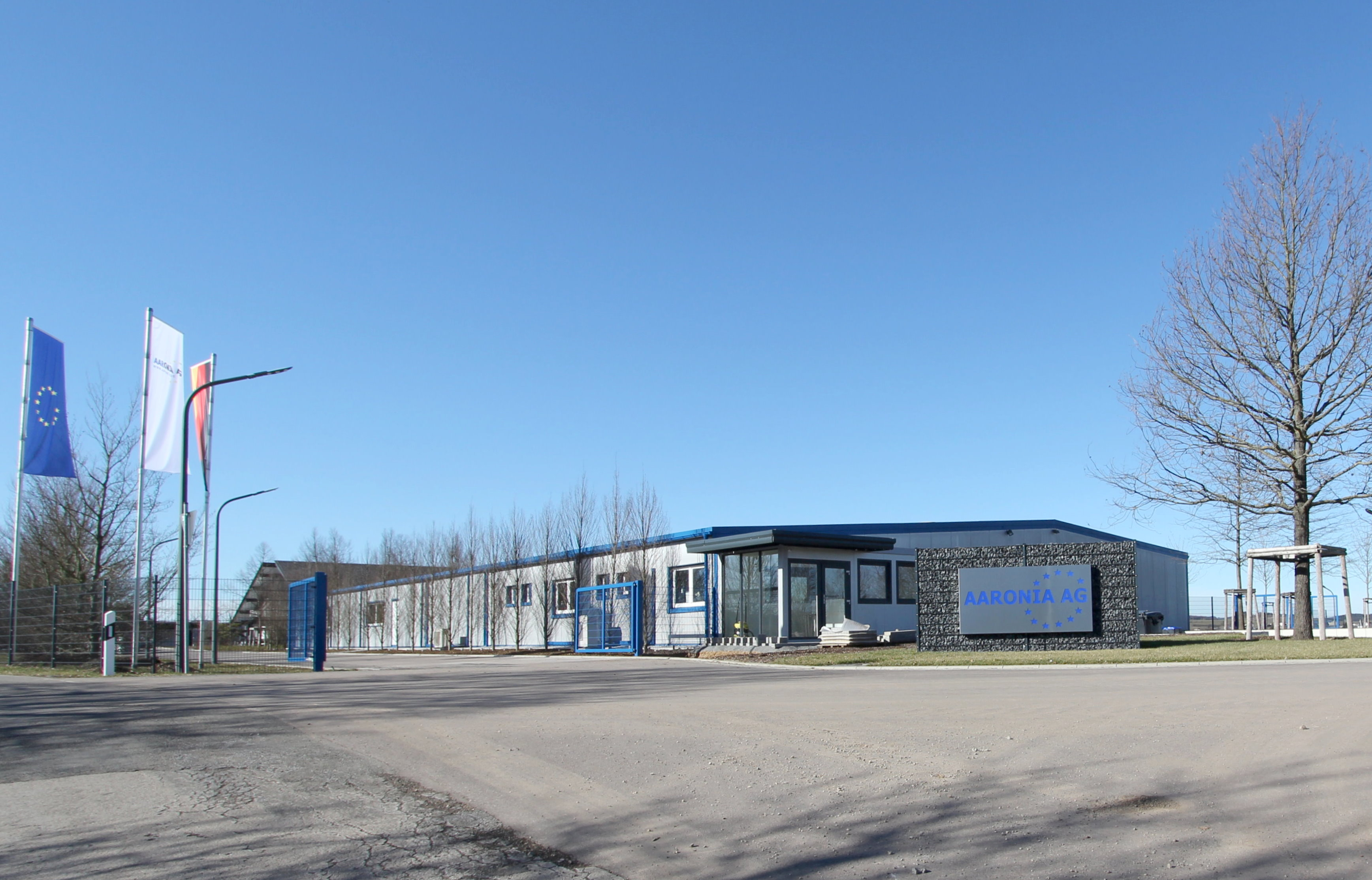 Aaronia was founded in 2003 by Mr. Thorsten Chmielus and mainly produces Spectrum Analyzers, Generators, Antennas and Shielding Materials. In 2004 Aaronia shipped its first spectrum analyzer. In 2008 Aaronia presented a new generation of the SPECTRAN spectrum analyzer, the V4 series. It was the first handheld RF analyzer to reach a sensitivity of -170dBm DANL - a world record. In 2016 Aaronia released the SPECTRAN V5 series - the world's first and only handheld, real-time spectrum analyzer. The frequency range for the V5 Series was extended from max. 9,4GHz to 20GHz. Todays purpose of the enterprise is development, trade and sale of measuring equipment, technologies and rights of low and high frequency measurement technique, robotics as well as screening/shielding of RF and E-fields and fundamental research at the segment of communications and measurement engineering, furthermore the construction of own circuitries and measuring methods in particular for the development of extreme sensitive and precise high-frequency measurement devices ( Photo from the year 2019